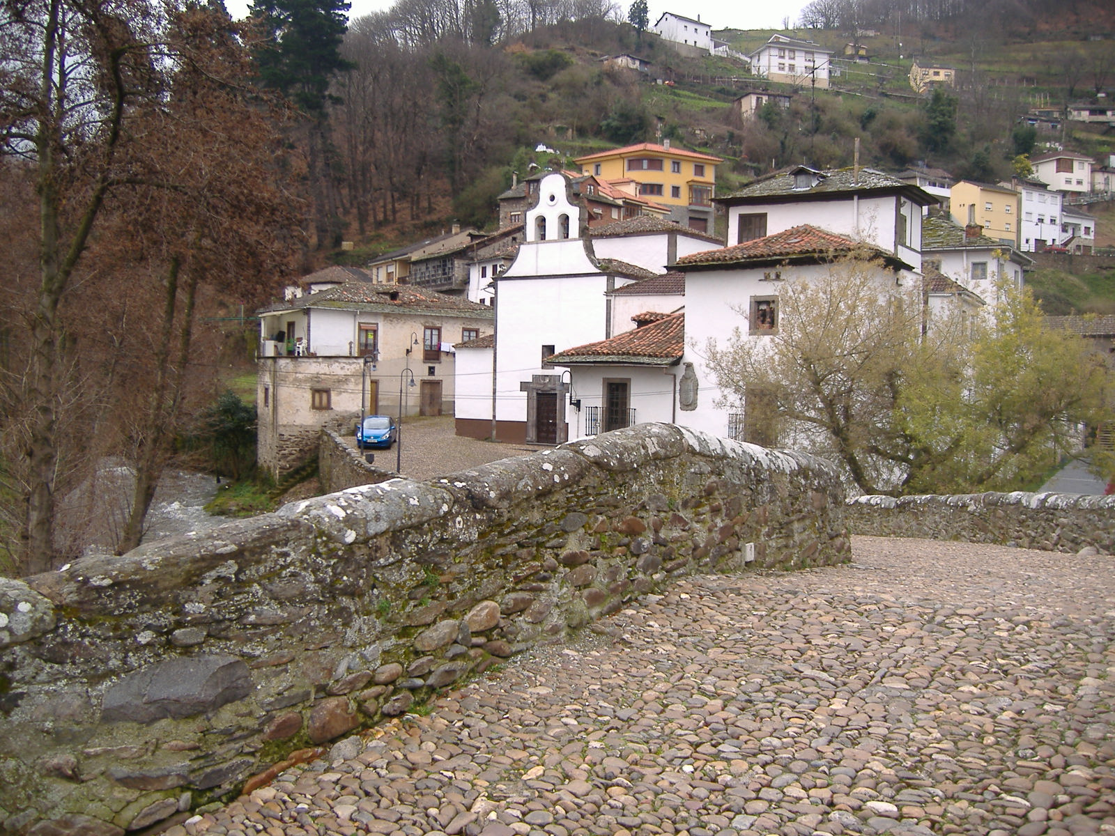 Cangas del Narcea, medieval bridge and Ambsaguas. Asturias, Spain 2006